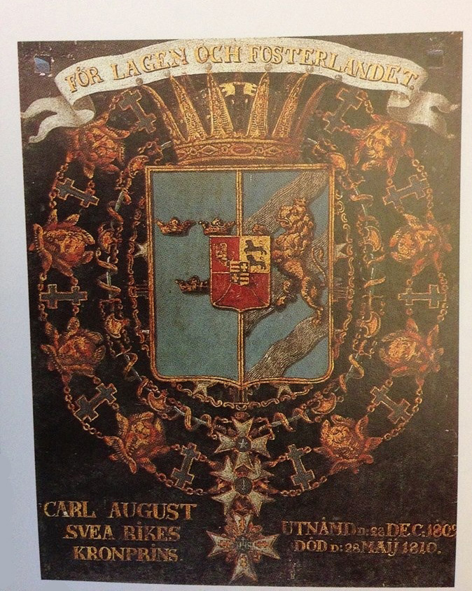 Stallplate of Carl August of Schleswig-Holstein-Sonderberg-Augustenburg, Crown Prince of Sweden, as a Knight of the Order of the Seraphim.